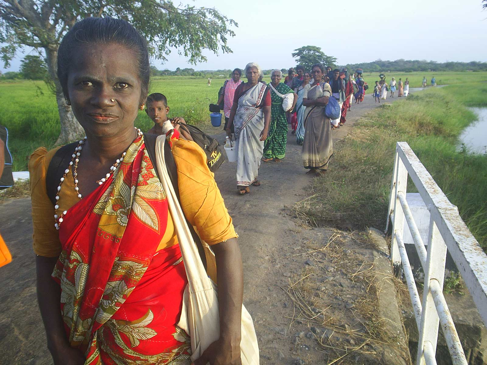 Group of Vedar or Veta Vellalar person undertaking a pilgrimage from Muttur town in Sri Lanka to Kataragama in the South.